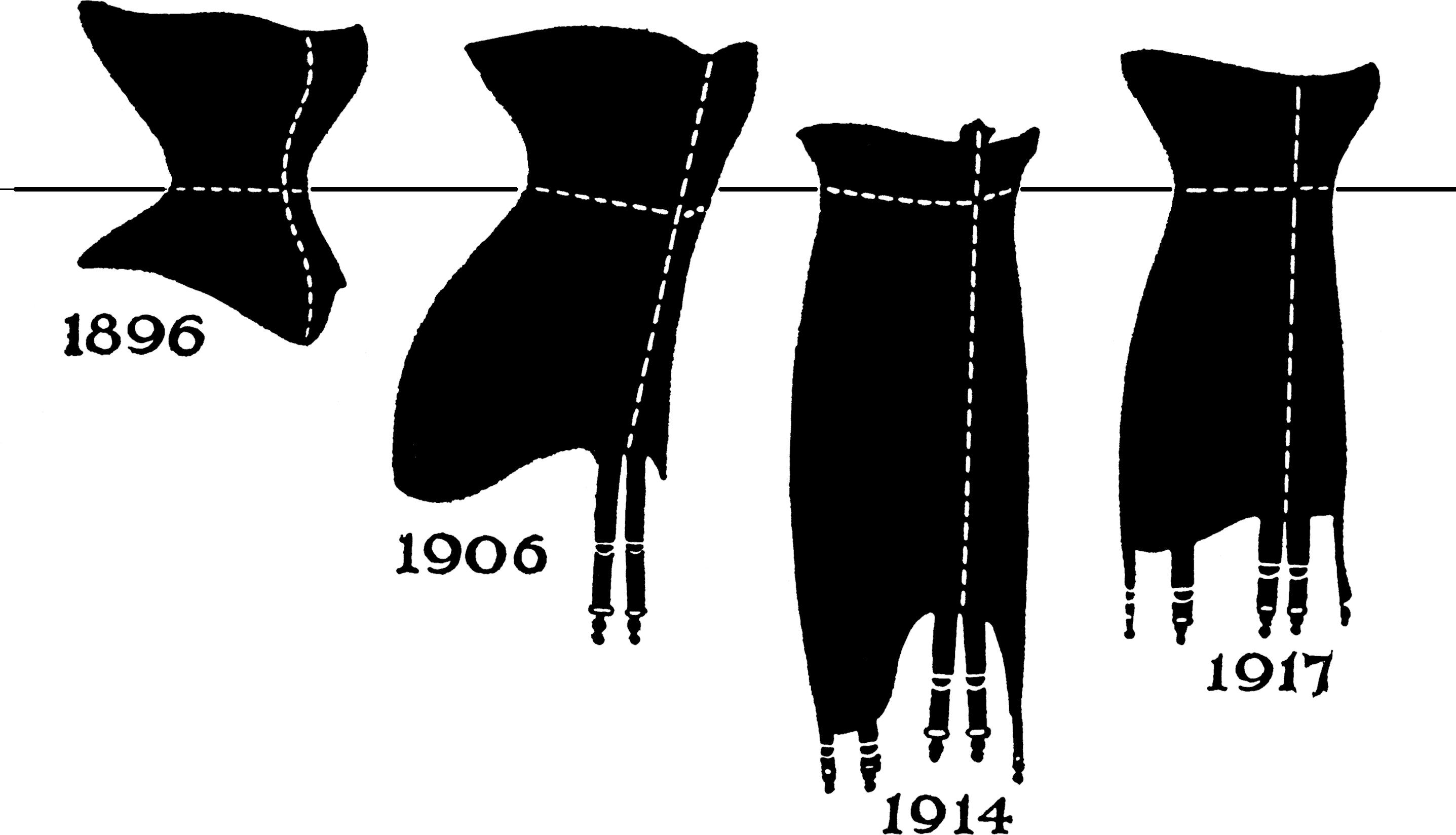 The change of body shape at the time.